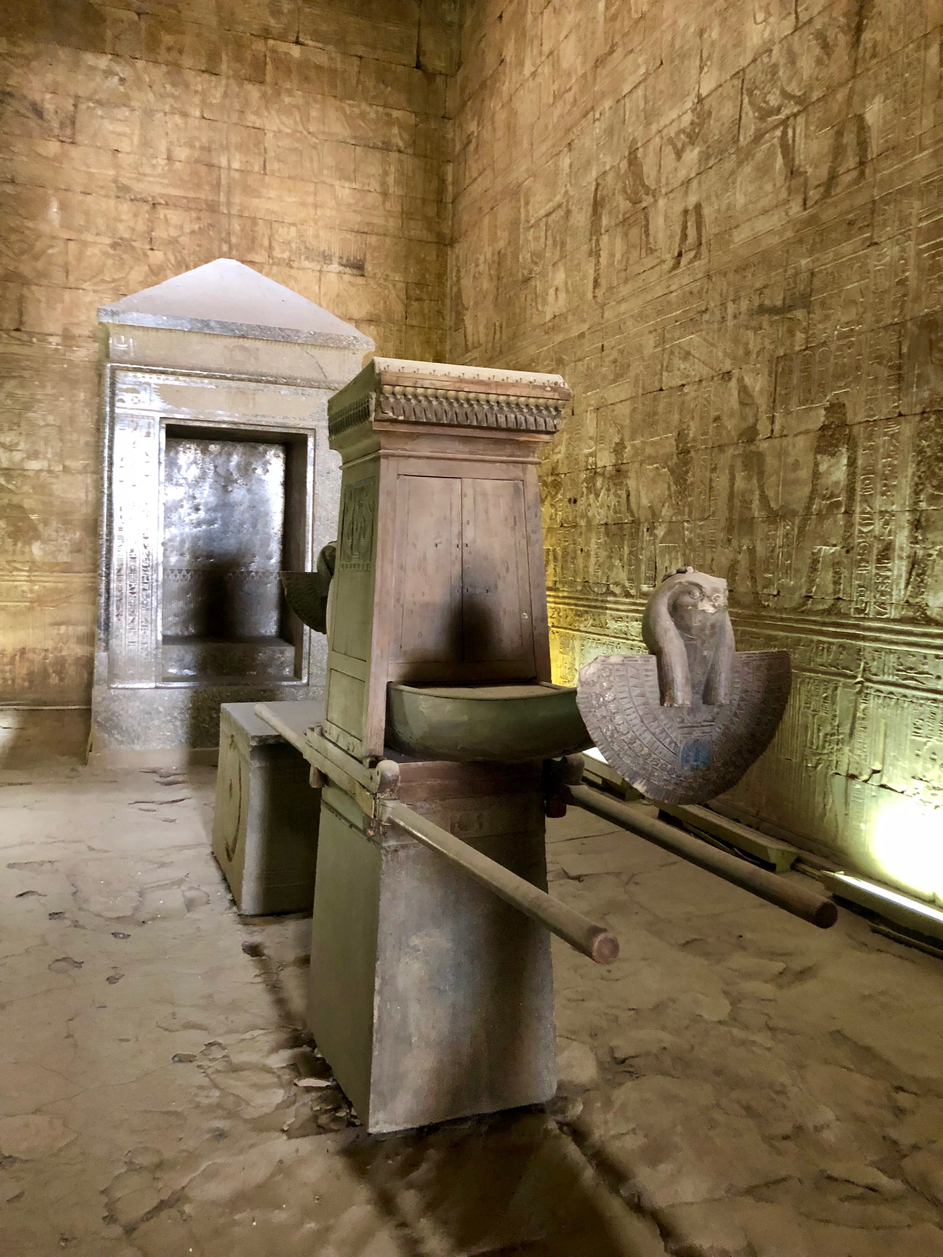 Sanctuary of Horus, Temple of Horus at Edfu, Edfu, AG, EGY